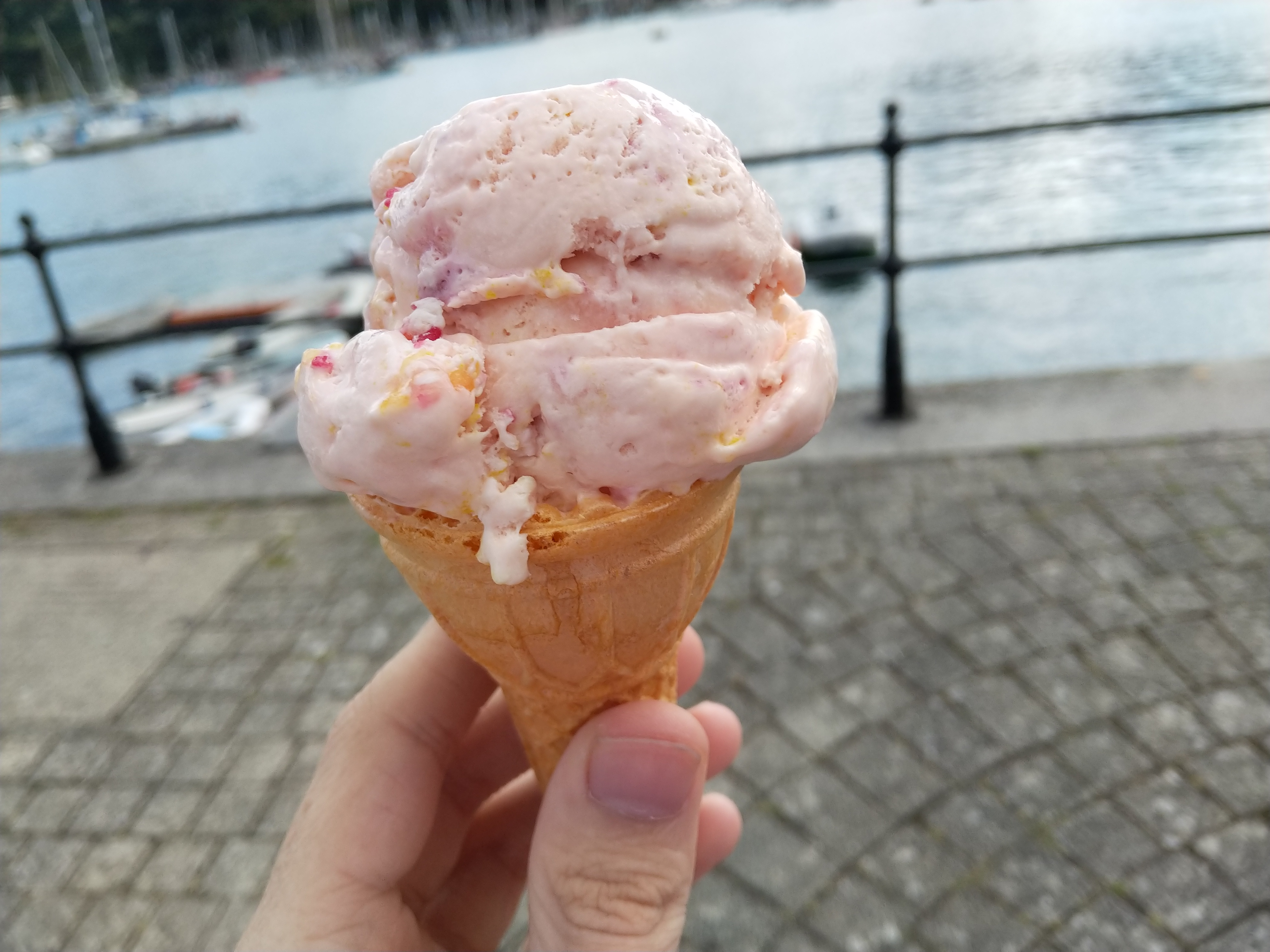 This is a wonderful example of tutti frutti ice-cream, from the Platform 1 ice-cream stall beside the Dartmouth Harbour & North Embankment, United Kingdom.